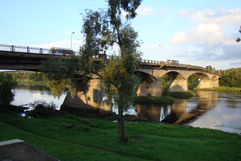 Panemunes tiltas in Kaunas.